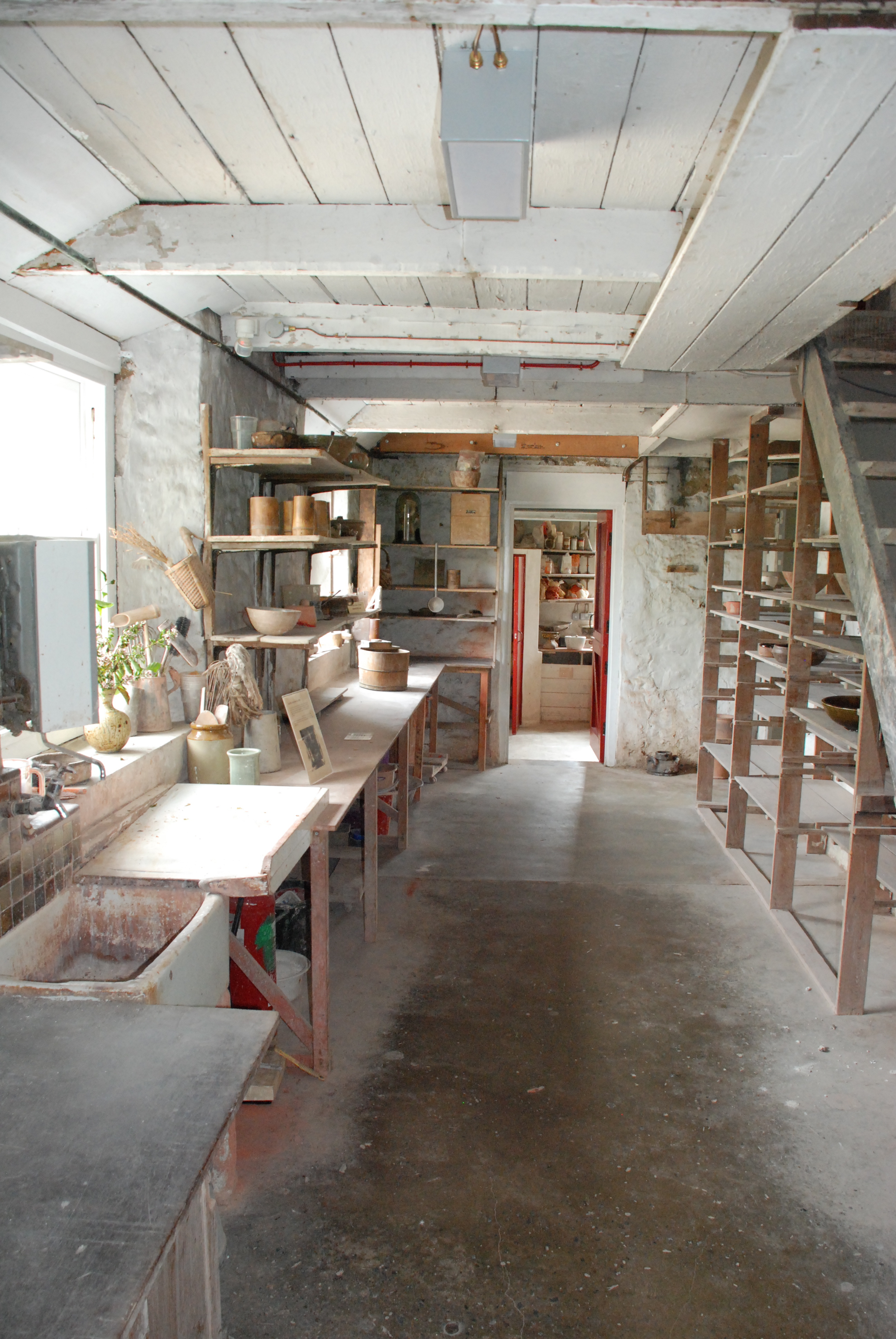 The Leach Pottery Home of studio pottery The Leach Pottery in St Ives was established by Bernard Leach and Shoji Hamada in 1920. One of the great figures of 20th century art, Leach played a crucial pioneering role in creating an identity for artist potters in Britain and around the world. In March 2008, a £1.7 million capital project was completed, giving new life to the Leach Pottery and enabling it to set up in production and open its doors to the public once again.